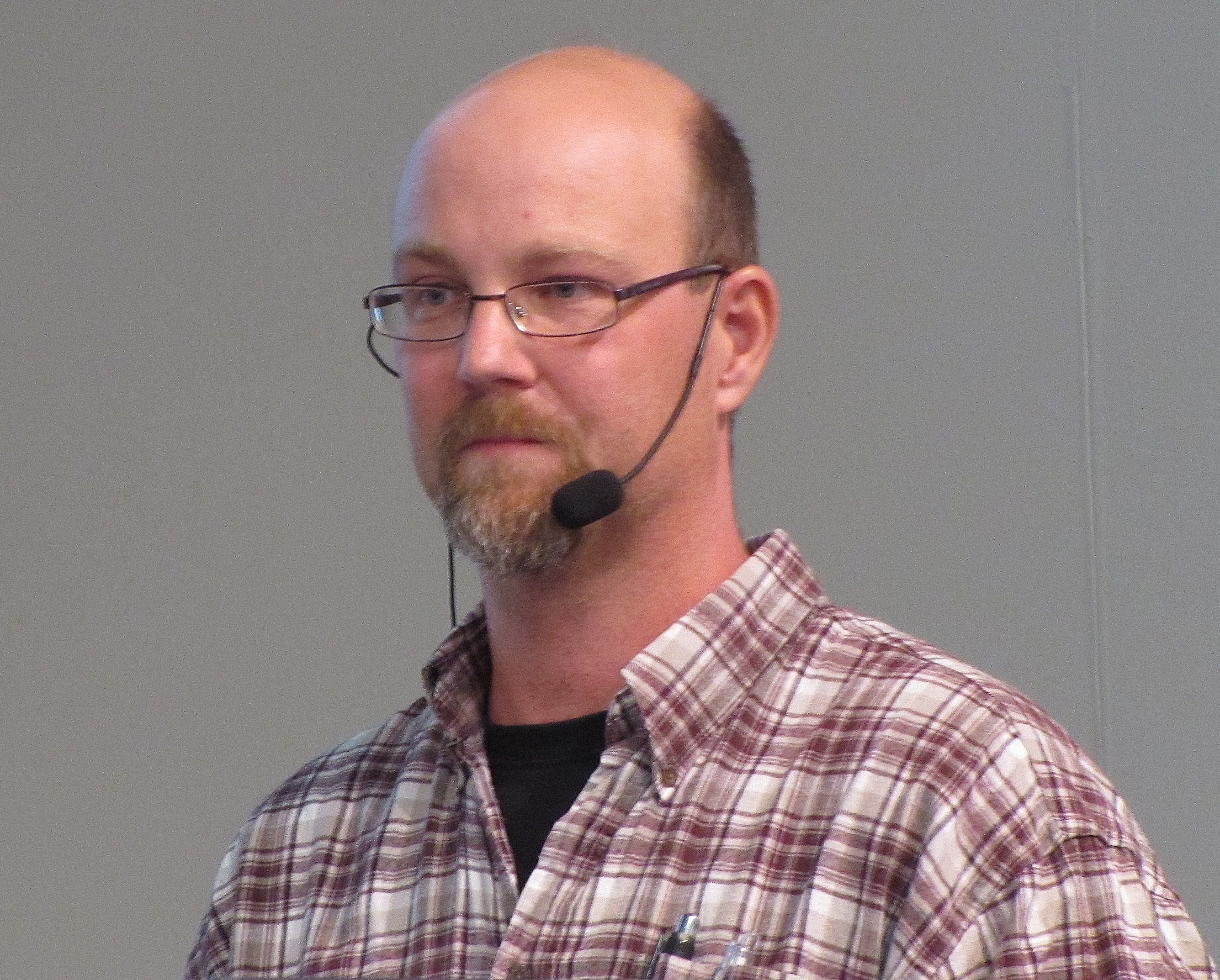 Swedish astronomer Jesper Sollerman.